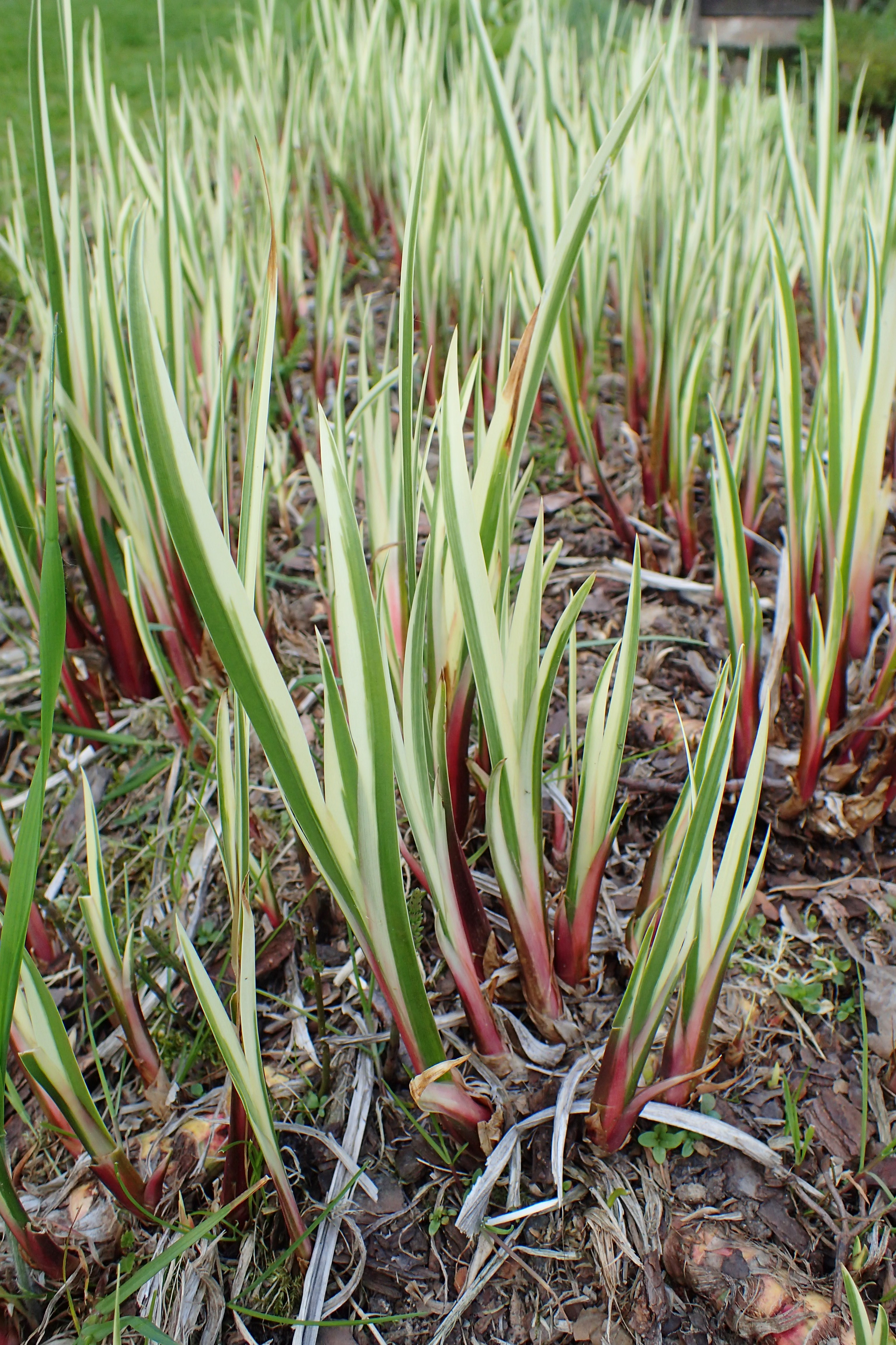 Acorus calamus 'Variegatus' in arboretum in Wojsławice